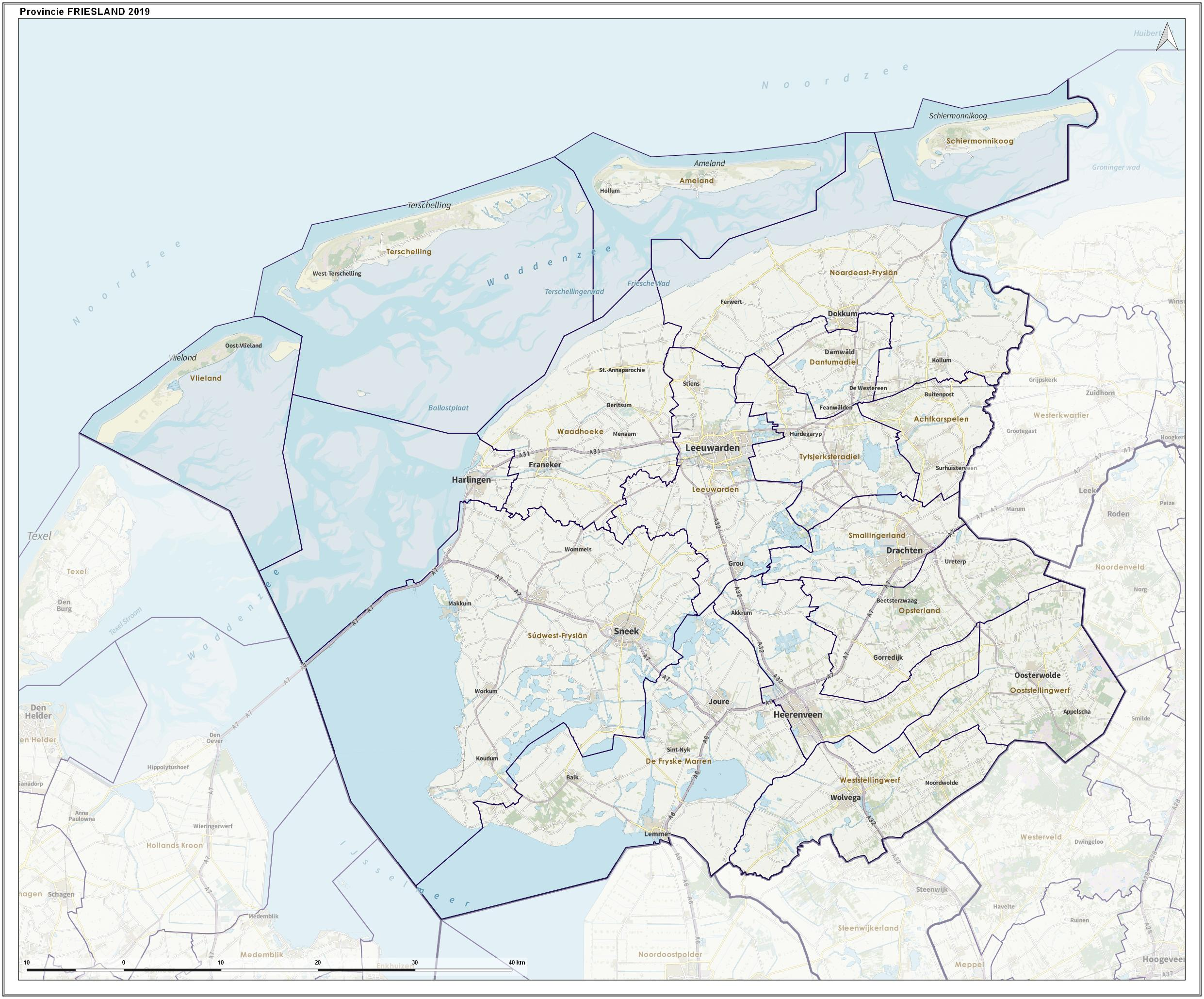 Overview map of the province, including municipal borders, largest places and major infrastructure.